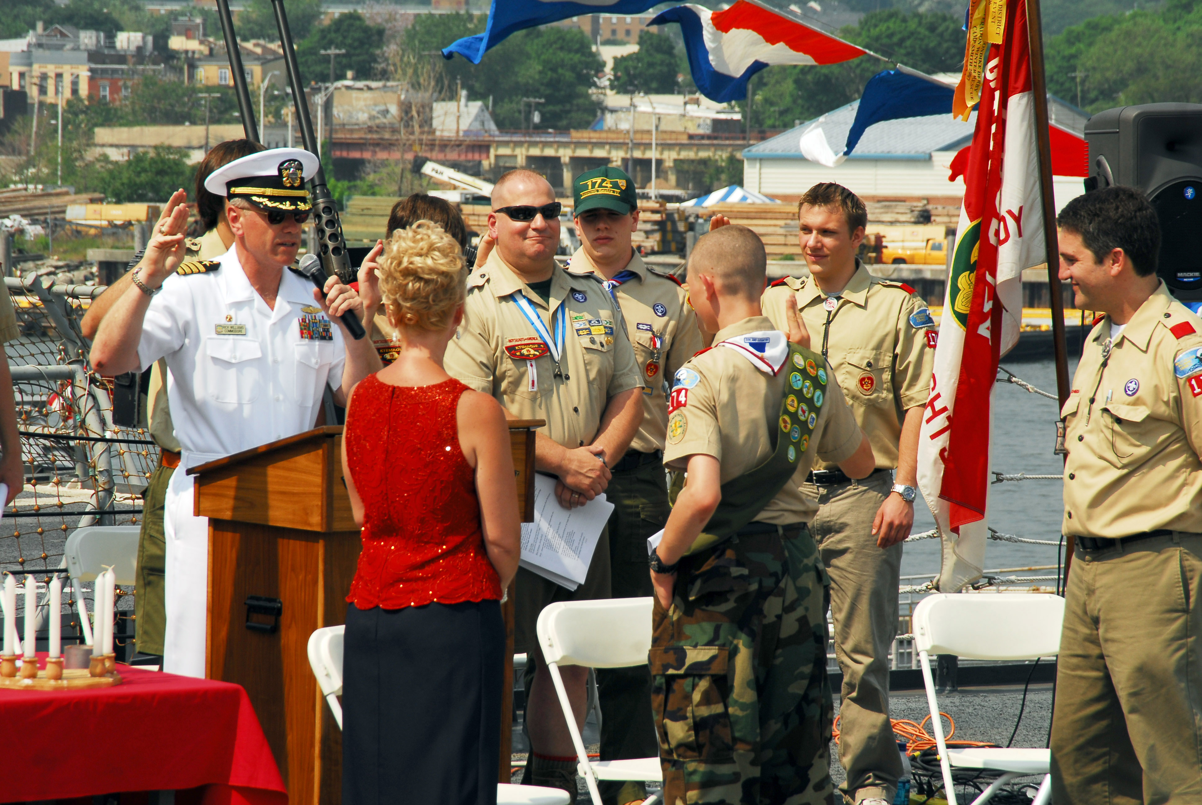 STATEN ISLAND, N.Y. (May 26, 2007) - Capt. Rick Williams, Commodore, Destroyer Squadron 26, administers the Eagle Scout oath to his nephew during an Eagle Scout ceremony aboard guided-missile destroyer USS Oscar Austin (DDG 79), as part of the festivities for Fleet Week. Eagle is the highest recognition offered in scouting. U.S. Navy photo by Mass Communication Specialist 3rd Class Kenneth R. Hendrix (RELEASED)